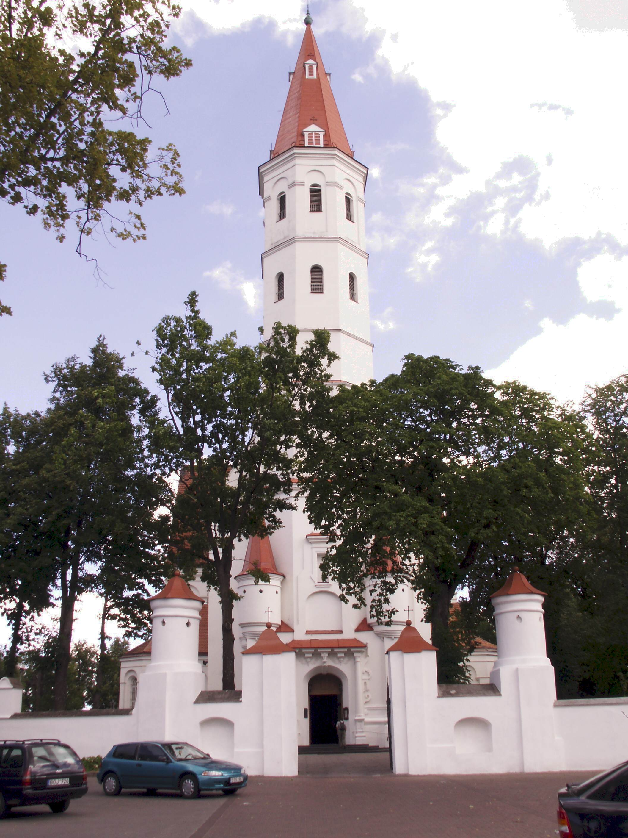 Šiauliai Cathedral, Lithuania